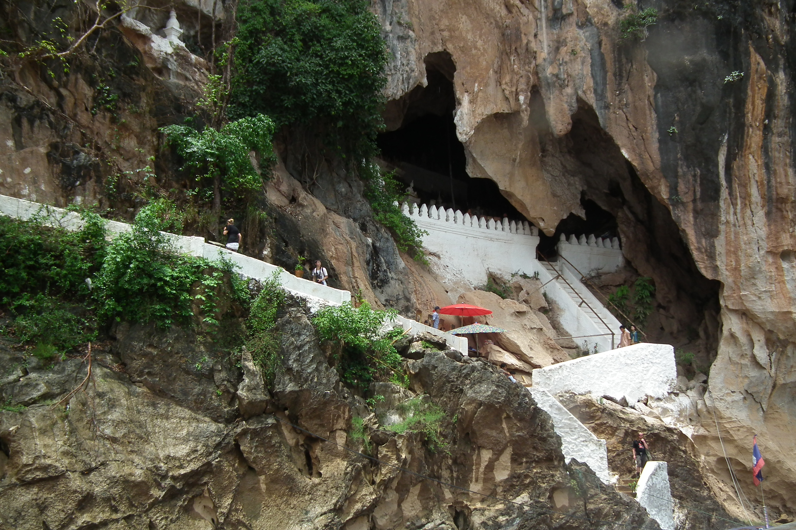 Near Pak Ou (mouth of the Ou river) the Tham Ting (lower cave) and the Tham Theung (upper cave) are caves overlooking the Mekong River 25 km from Luang Prabang, Laos. They are a group of caves on the left side of the Mekong river, about two hours upstream from the centre of Luang Prabang, and have become well known by tourists. The caves are noted for their miniature Buddha sculptures. Hundreds of very small and mostly damaged wooden Buddhist figures are laid out over the wall shelves. They take many different positions, including meditation, teaching, peace, rain, and reclining (nirvana).